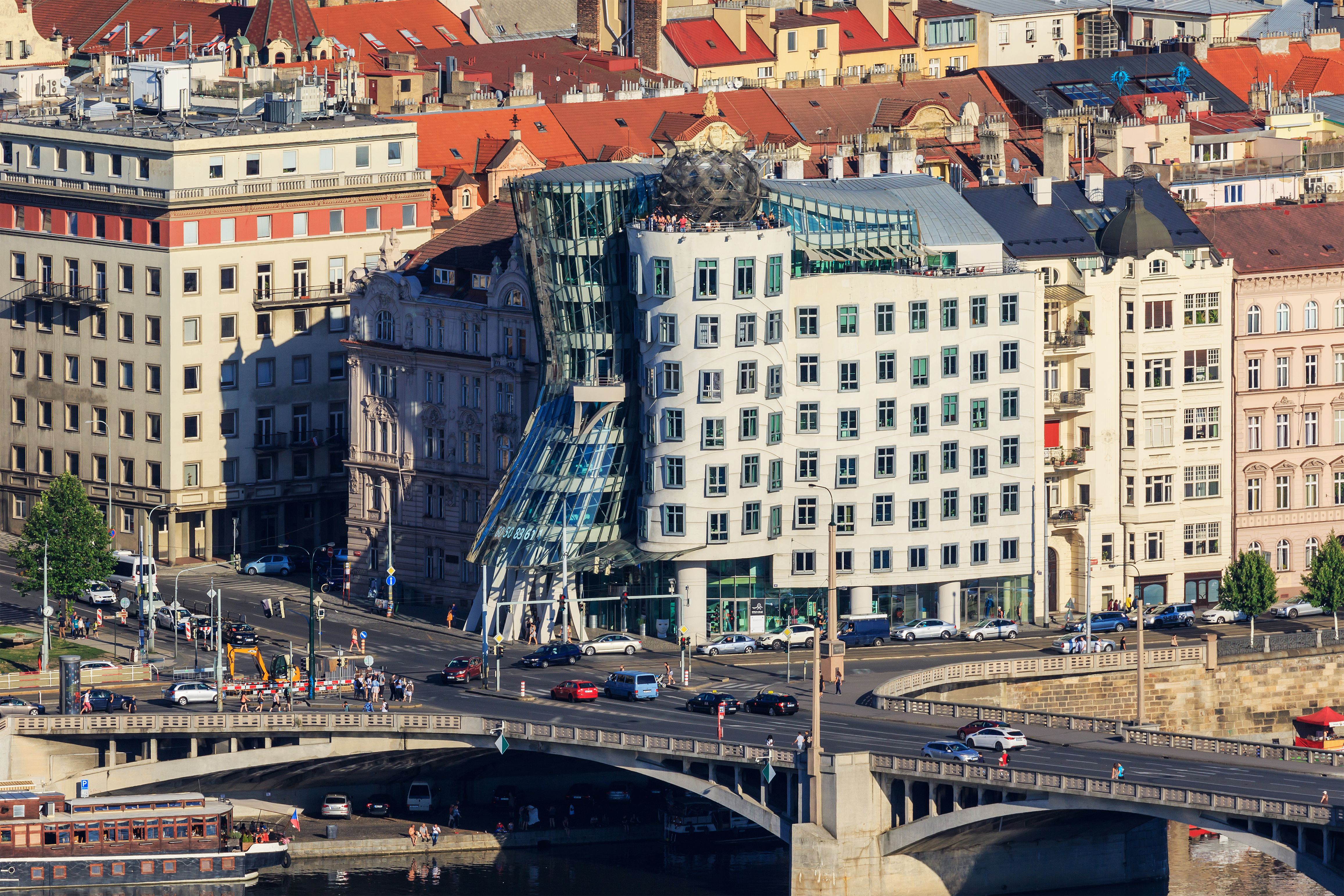 View from Petřín Lookout Tower in Prague (Czech Republic) – Dancing House